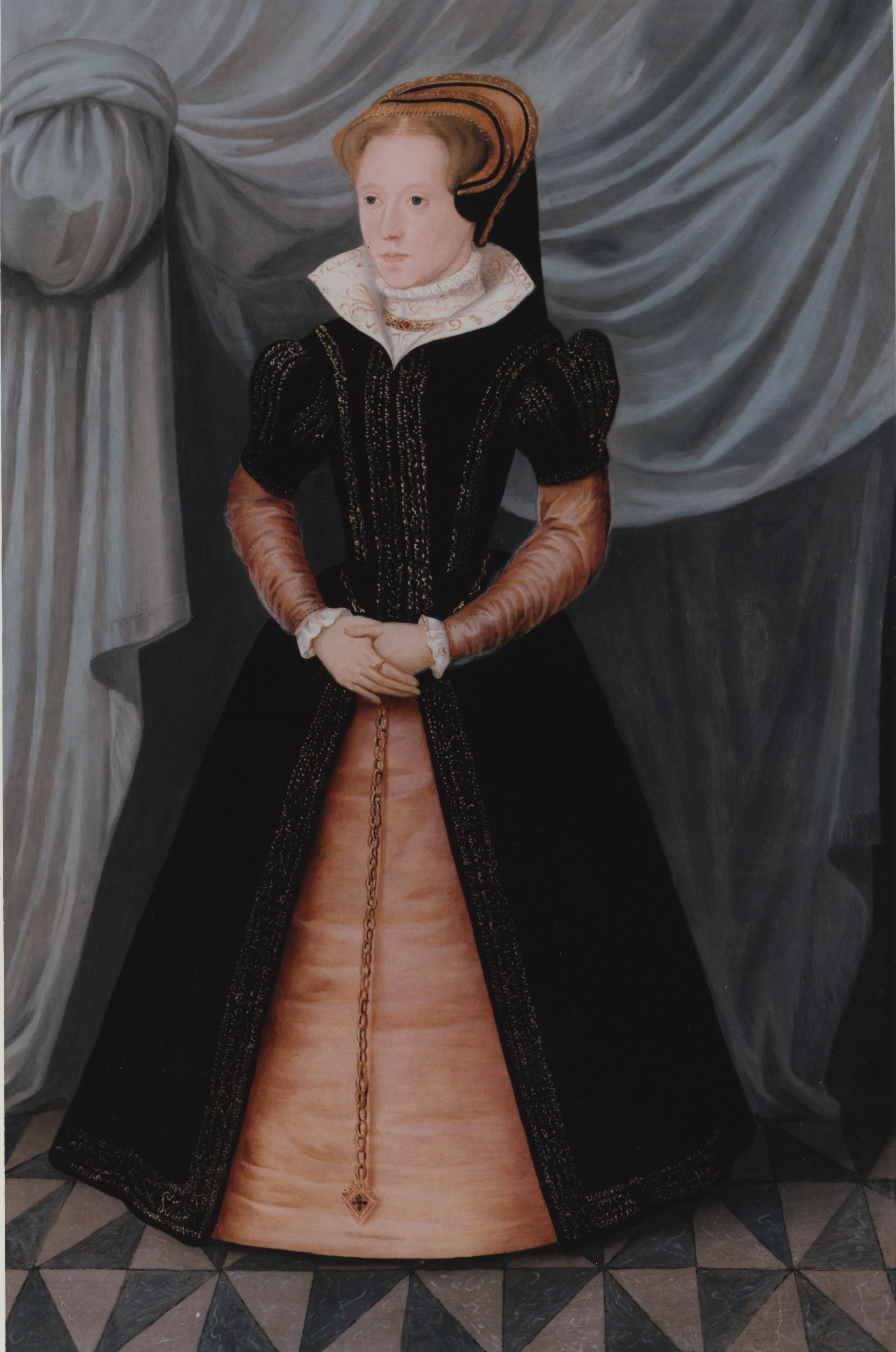 Portrait of Queen Mary I of England (1516-1558)